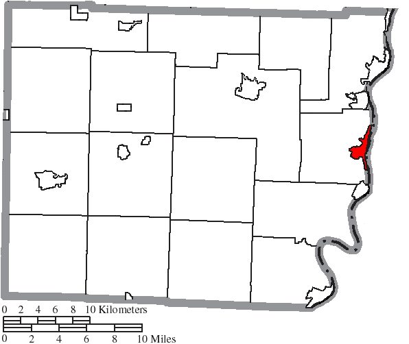 Map of the municipal and township boundaries of Belmont County, Ohio, United States, as of the 2000 census, with the location of the village of Bellaire highlighted. Township borders are shown only in unincorporated areas in order to differentiate incorporated and unincorporated areas more clearly.